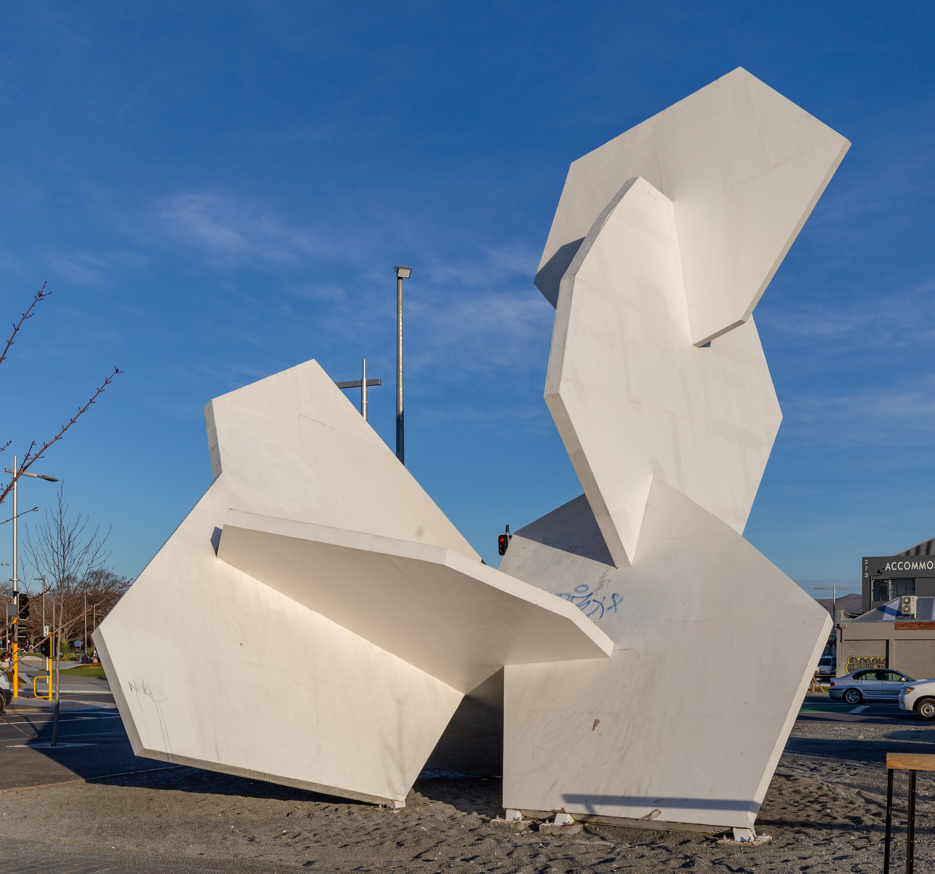 Call me Snake by Judy Millar, Christchurch, New Zealand